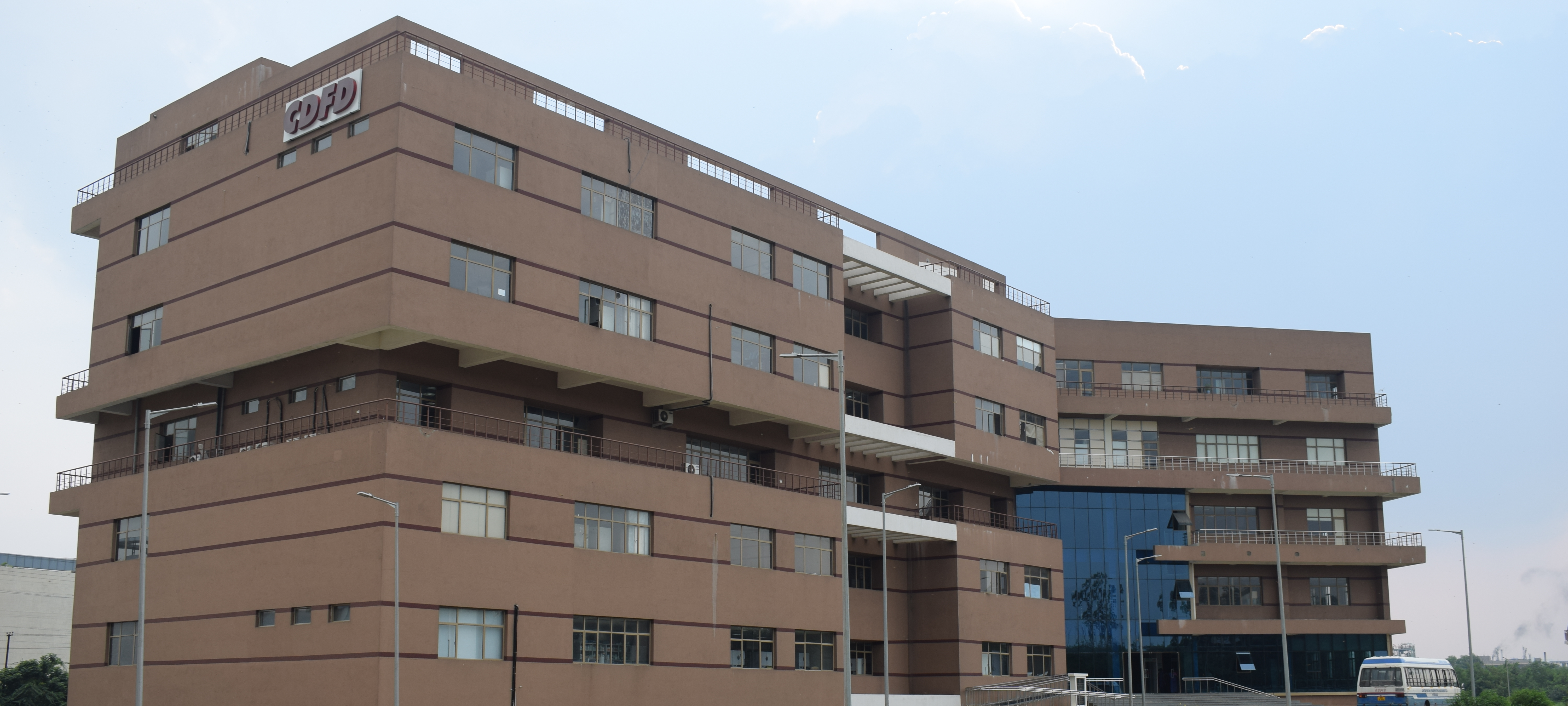 CDFD Laboratory Campus Uppal